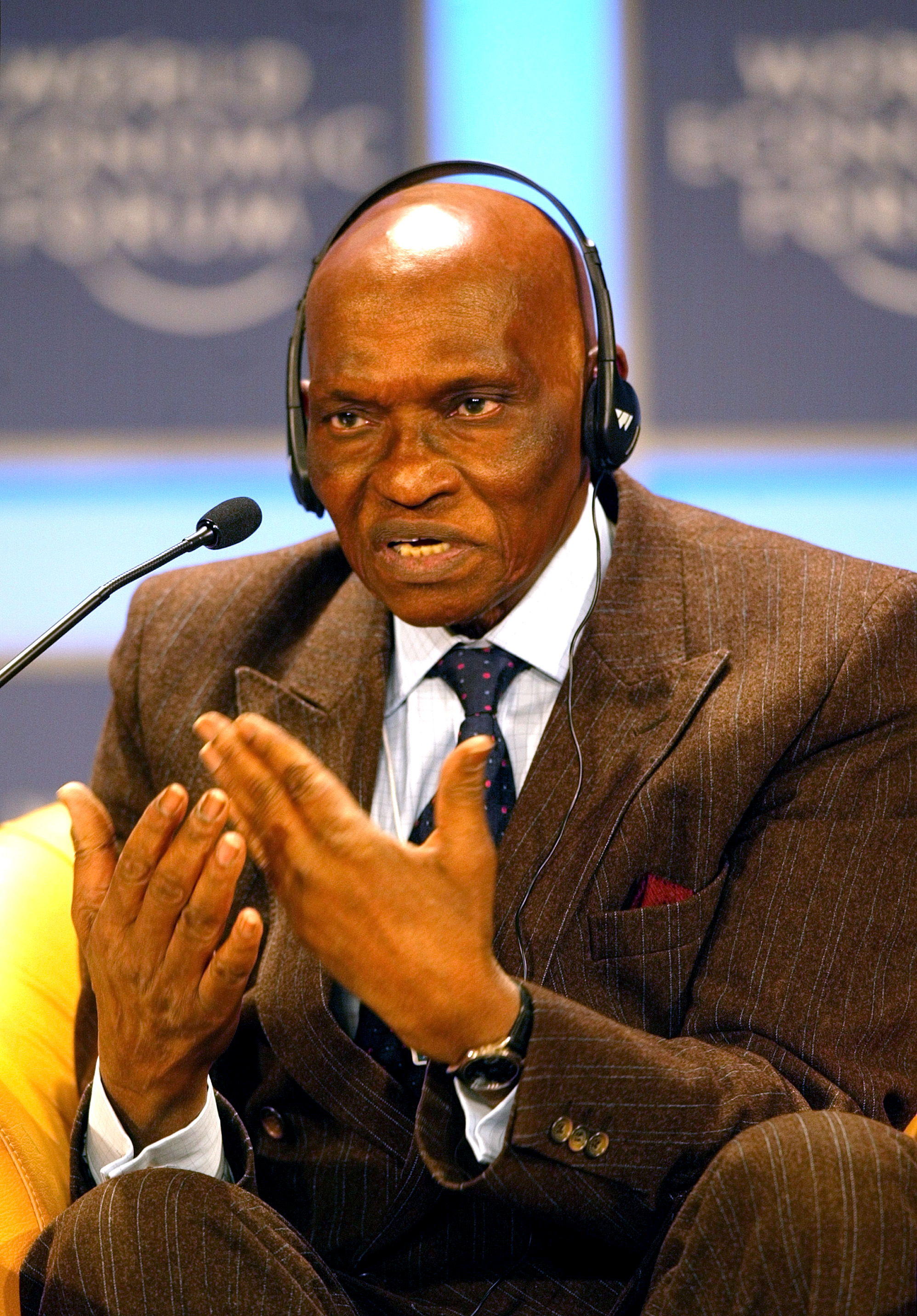 NEW YORK, 01FEB02 - Abdoulaye Wade, President of Senegal, gestures as he speaks during a session of the 32nd Annual Meeting of the World Economic Forum at the Waldorf-Astoria hotel in New York on February, 1, 2002. Main subject of the meeting was 'Africa's Response'. by Marcel Bieri